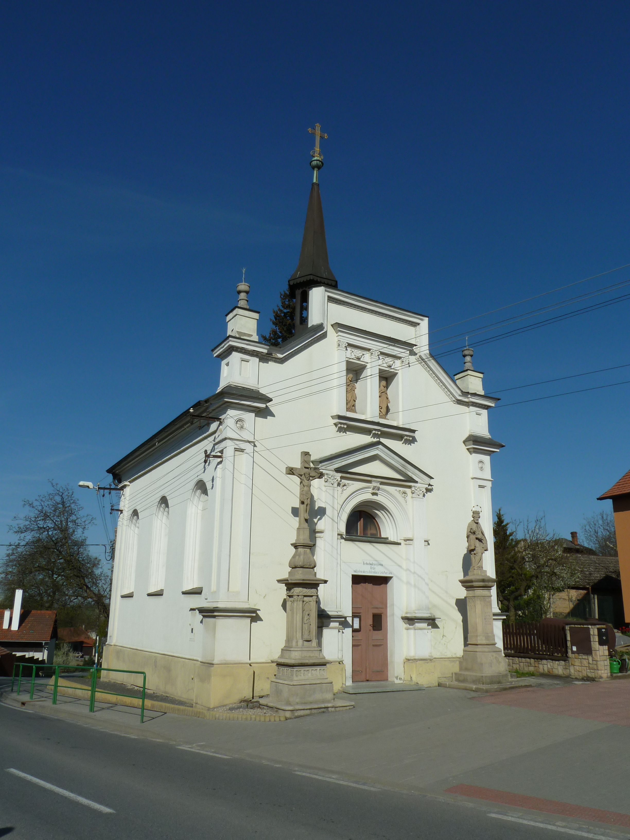 Chapel in village Velká (near town Hranice, Czech Republic)